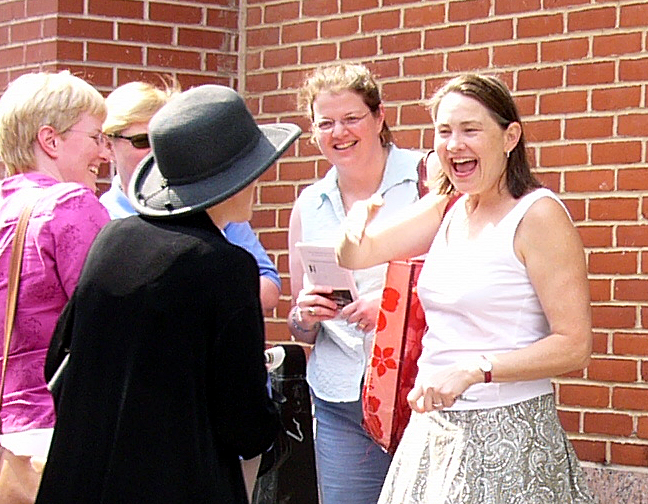 Cherry Jones enjoying time with her fans after a matinee of DOUBT on May 12, 2007.